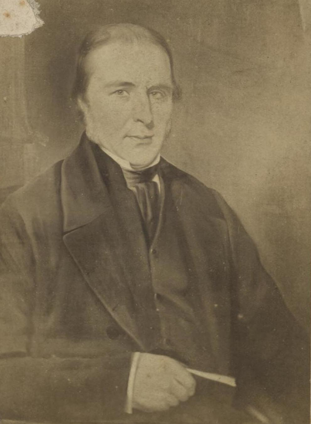 A portrait from the Welsh Portrait Collection at the National Library of Wales. Depicted person: John Jones – Welsh Calvinistic Methodist minister